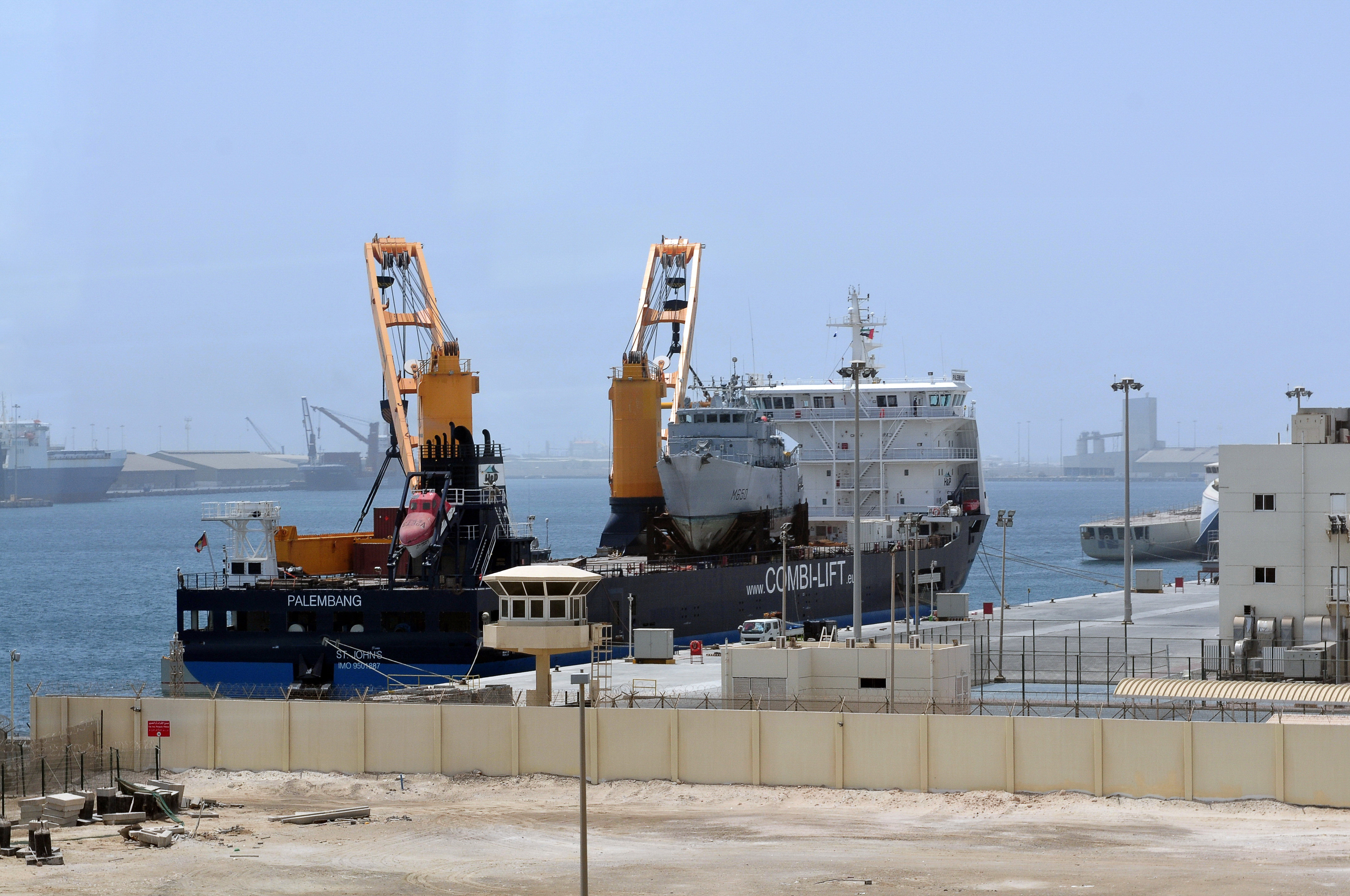 crane ship in Abu Dhabi